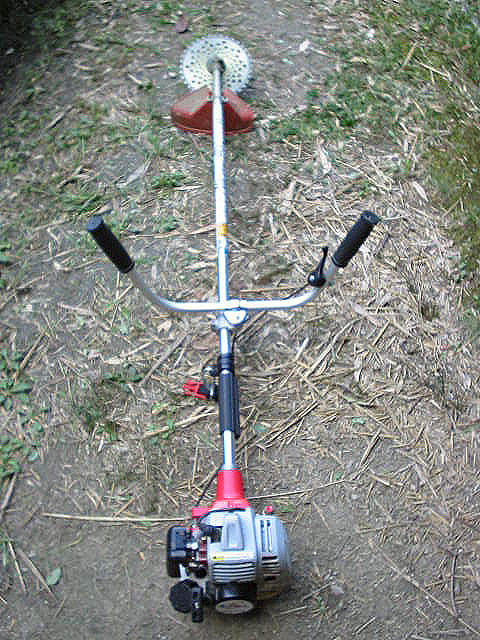 A compact grass-cutter for agriculture, etc.